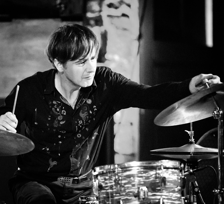 Edward Perraud with En Corps in Smeltehytta. The concert was part of Kongsberg Jazzfestival and took place on 05. July 2018 in Kongsberg. Lineup: Eve Risser (piano) Benjamin Duboc (double bass) Edward Perraud (drums)